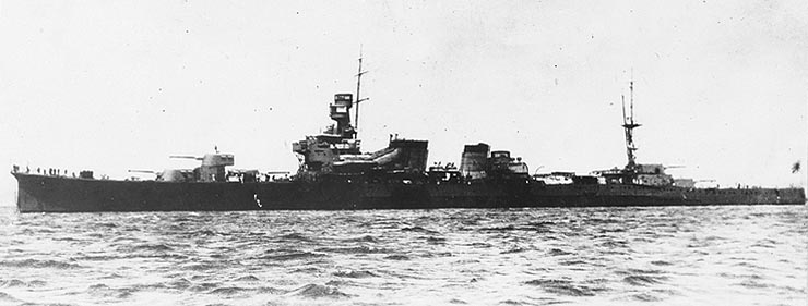 IJN's heavy cruiser Furutaka off Yokohama on 2 May 1926. Even labeled as Kako the long cover of bridge ventilation on the lower bridge deck is clearly visible and therefore this picture is in fact Furutaka - see [1]